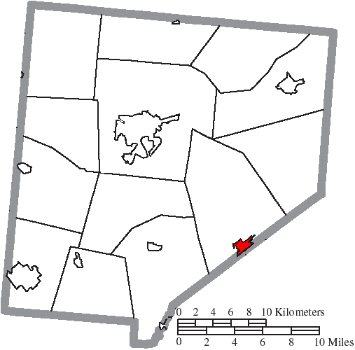 Map of the municipal and township boundaries of Clinton County, Ohio, United States, as of the 2000 census, with the location of the village of New Vienna highlighted. Township borders are shown only in unincorporated areas in order to differentiate incorporated and unincorporated areas more clearly.